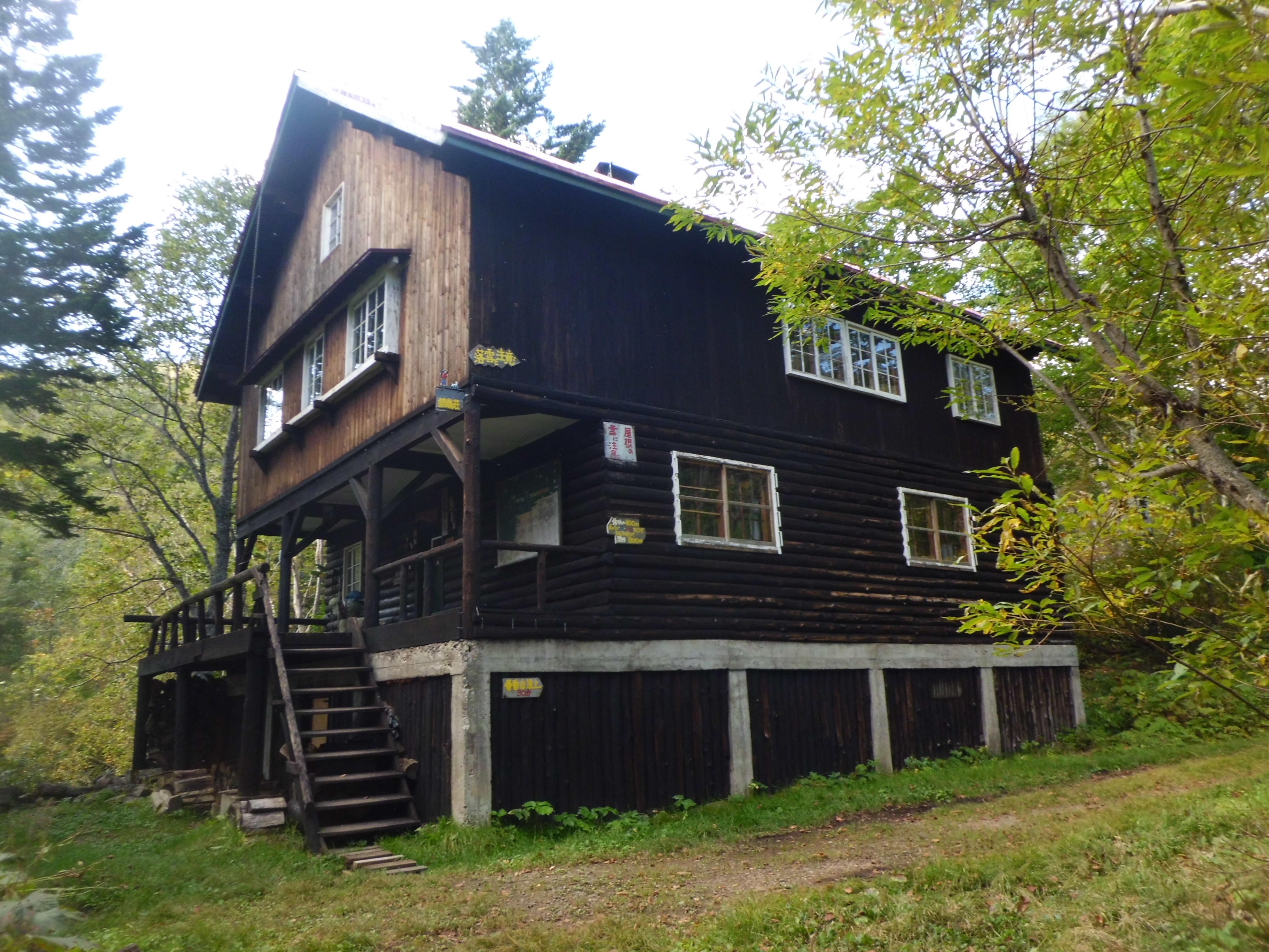 Ginrei Hut